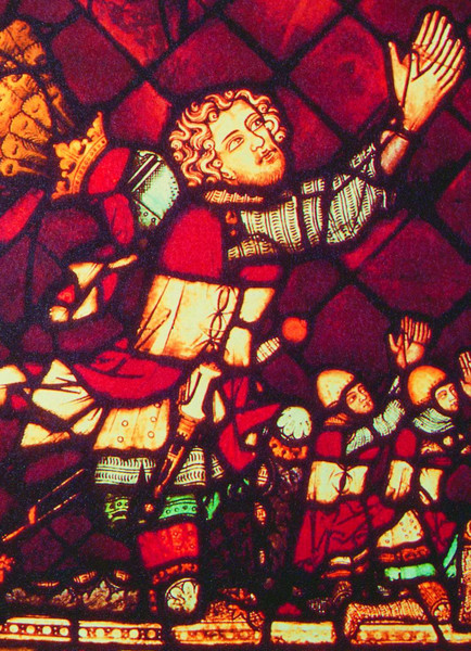 Albert II, Duke of Austria